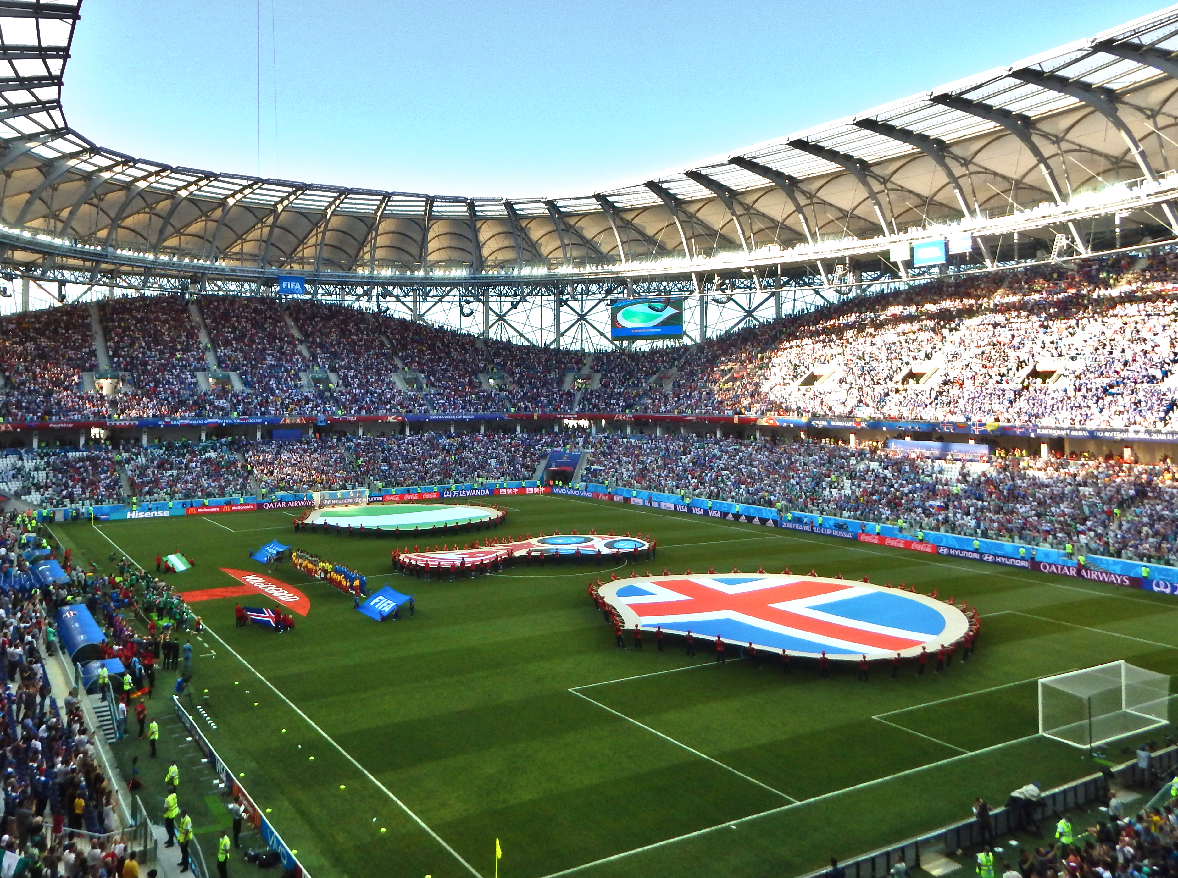 Photograph by Oleg Bkhambri of the 2018 FIFA World Cup Group D match between the Nigeria national football team and Iceland national football team at Volgograd Arena. The venue, which holds around 44,000 spectators, was host to four group stage matches at the World Cup, and will serve as an athletic and cultural center for the city of Volgograd in southern Russia.